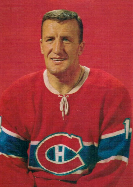 Trading card photo of Claude Provost as a member of the Montreal Canadiens. These cards were printed on the backs of Chex cereal boxes in the US and Canada from 1963 to 1965. Those collecting the cards cut them from the back of the boxes. Provost's card at PSA.